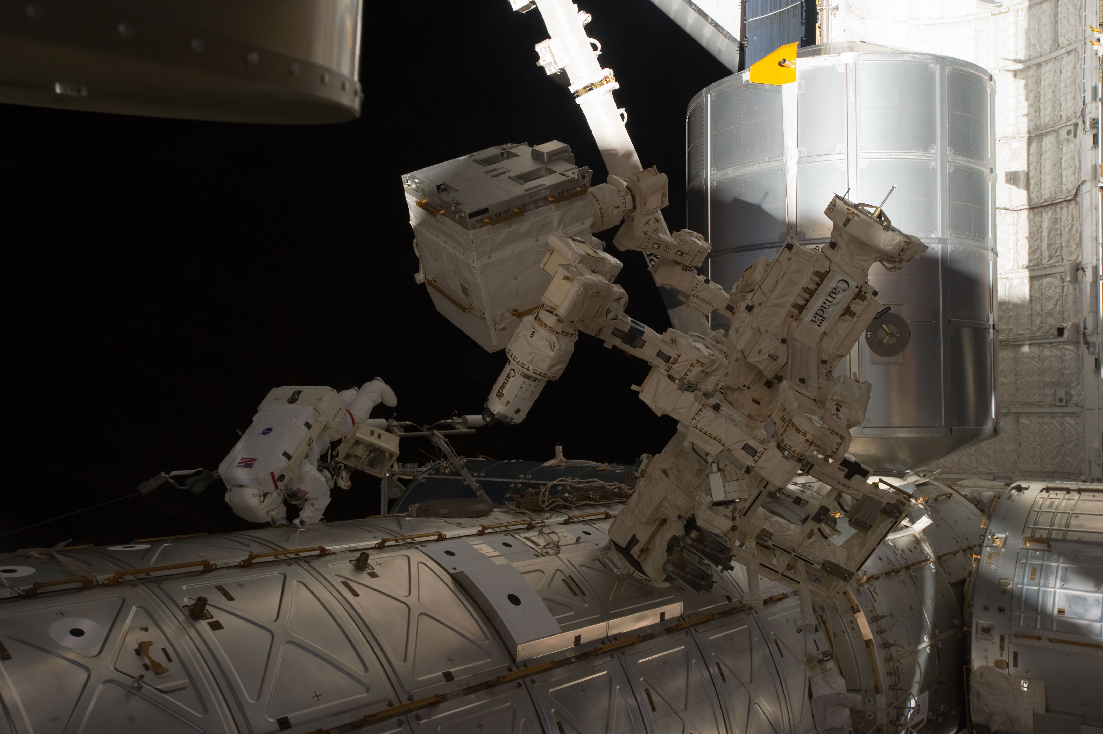 NASA astronaut Mike Fossum, Expedition 28 flight engineer, is pictured in one of a series of pictures that documented the July 12 spacewalk involving him and NASA astronaut Ron Garan as the outside participants for the six and a half hour event.